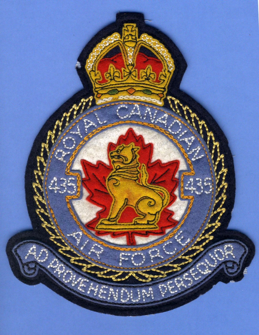 A WWII RCAF heraldic jacket patch for 435 Squadron. Although there is no back-stamp, the design and quality are indicative as being made by Crest Craft. From the estate of F. Sgt George Henry Steininger, Oakshell, SK.